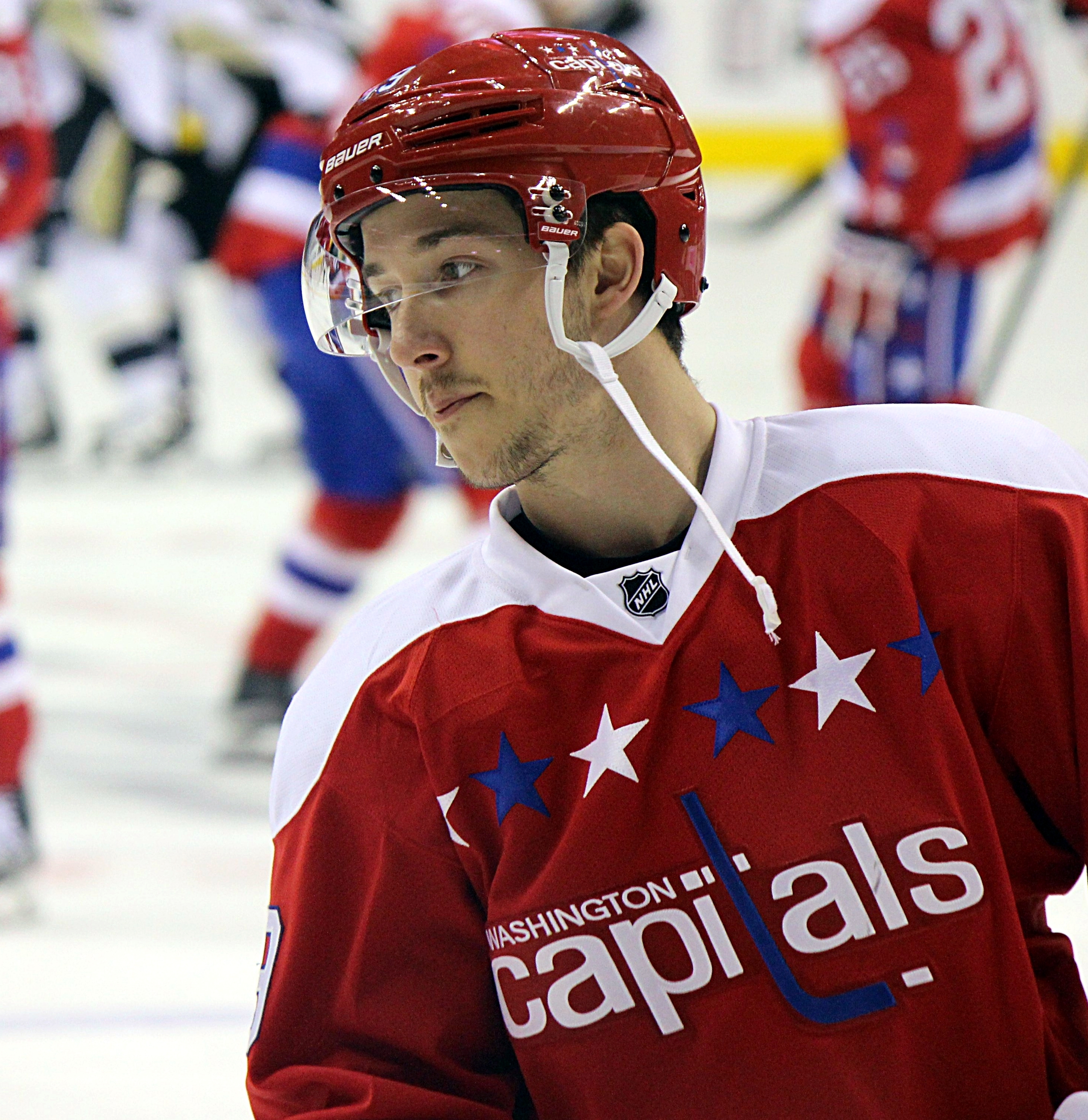 Washington Capitals forward Stanislav Galiev during a game against the Pittsburgh Penguins, Thursday, April 7, 2016 at Verizon Center in Washington, D.C.